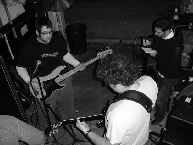 Chris Carrabba practicing with the original members of Further Seems Forever for the 2005 reunion show